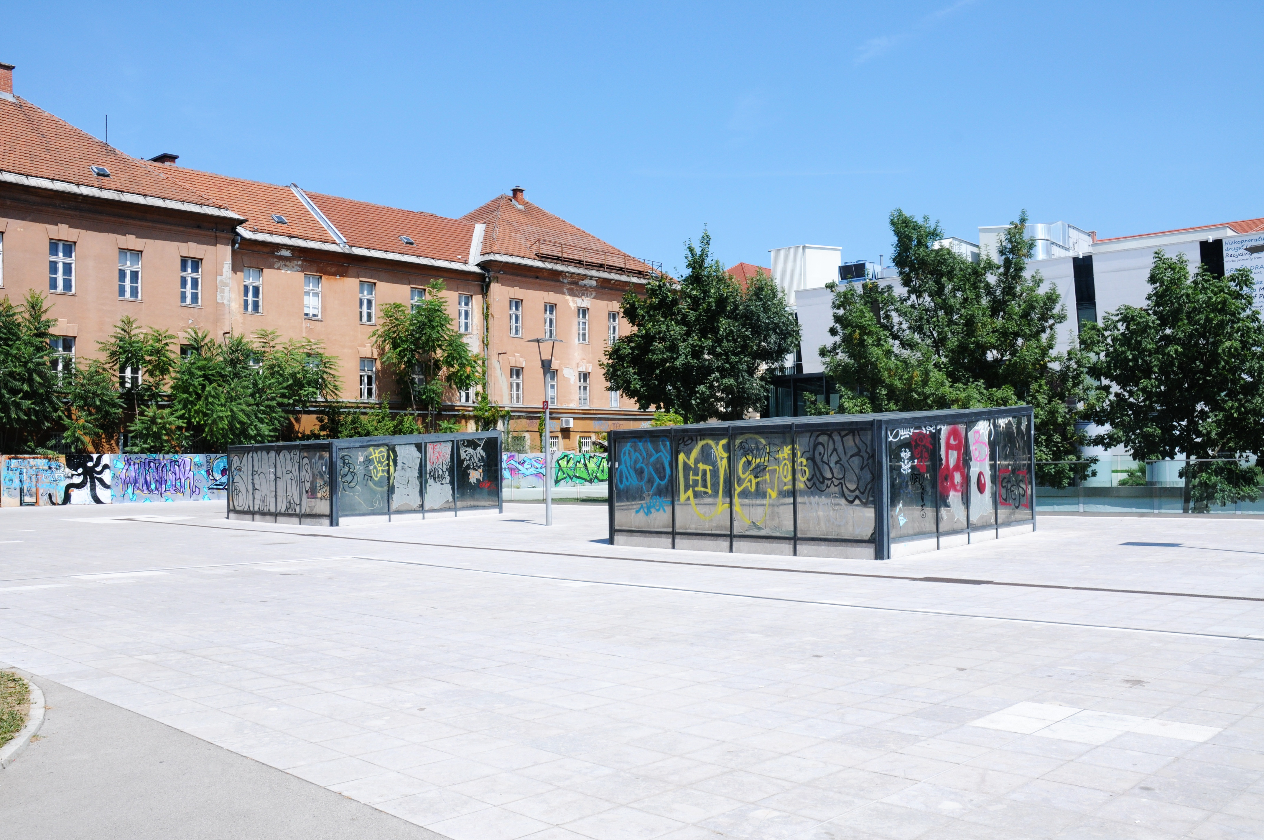 Show on map